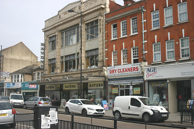 'The Bond Street of the East Coast'